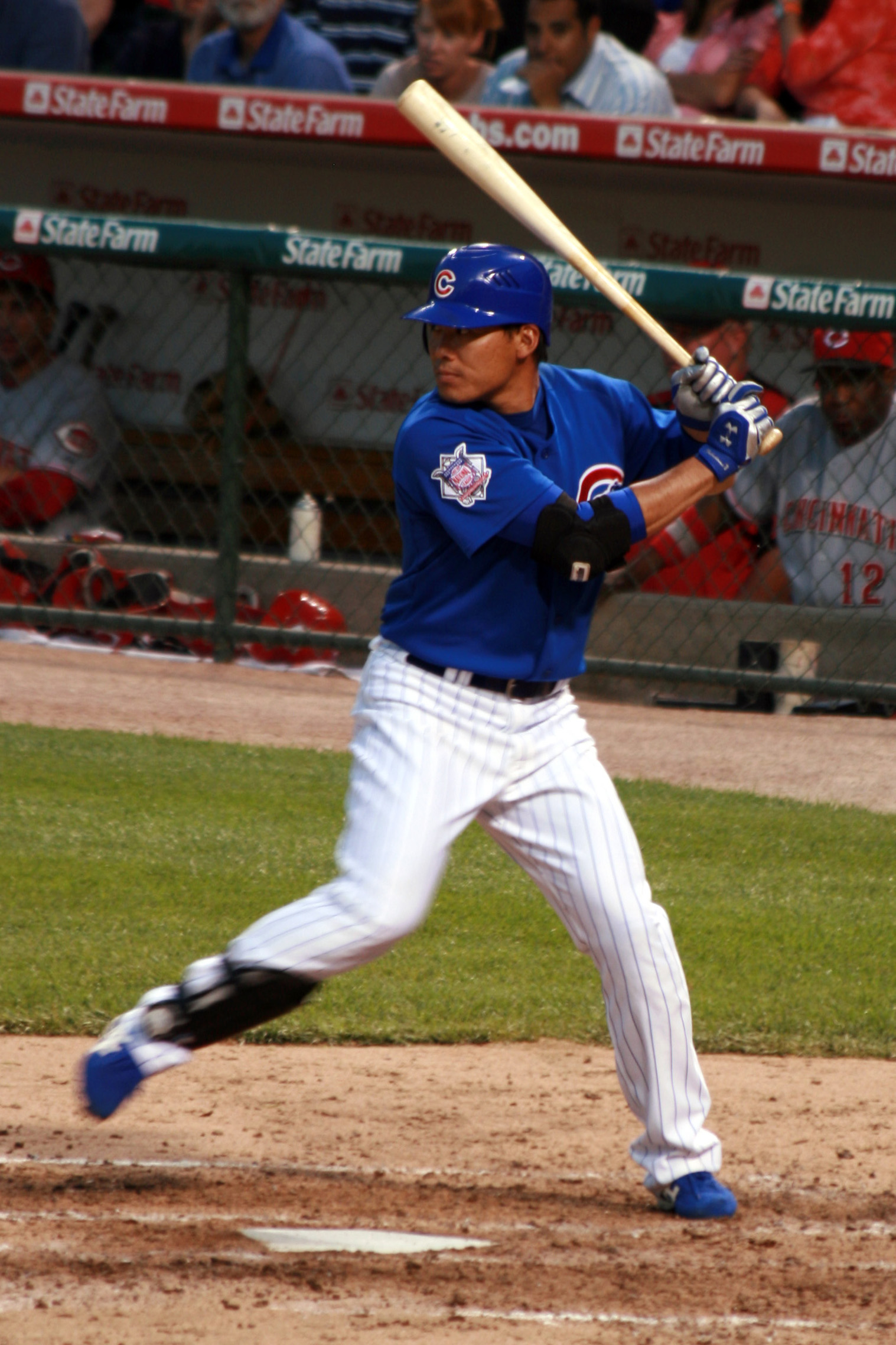 Kosuke Fukudome, of the Chicago Cubs, at bat and about to swing (cropped).